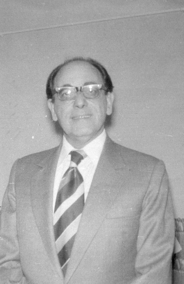 Photo of Ferdinand Weiss